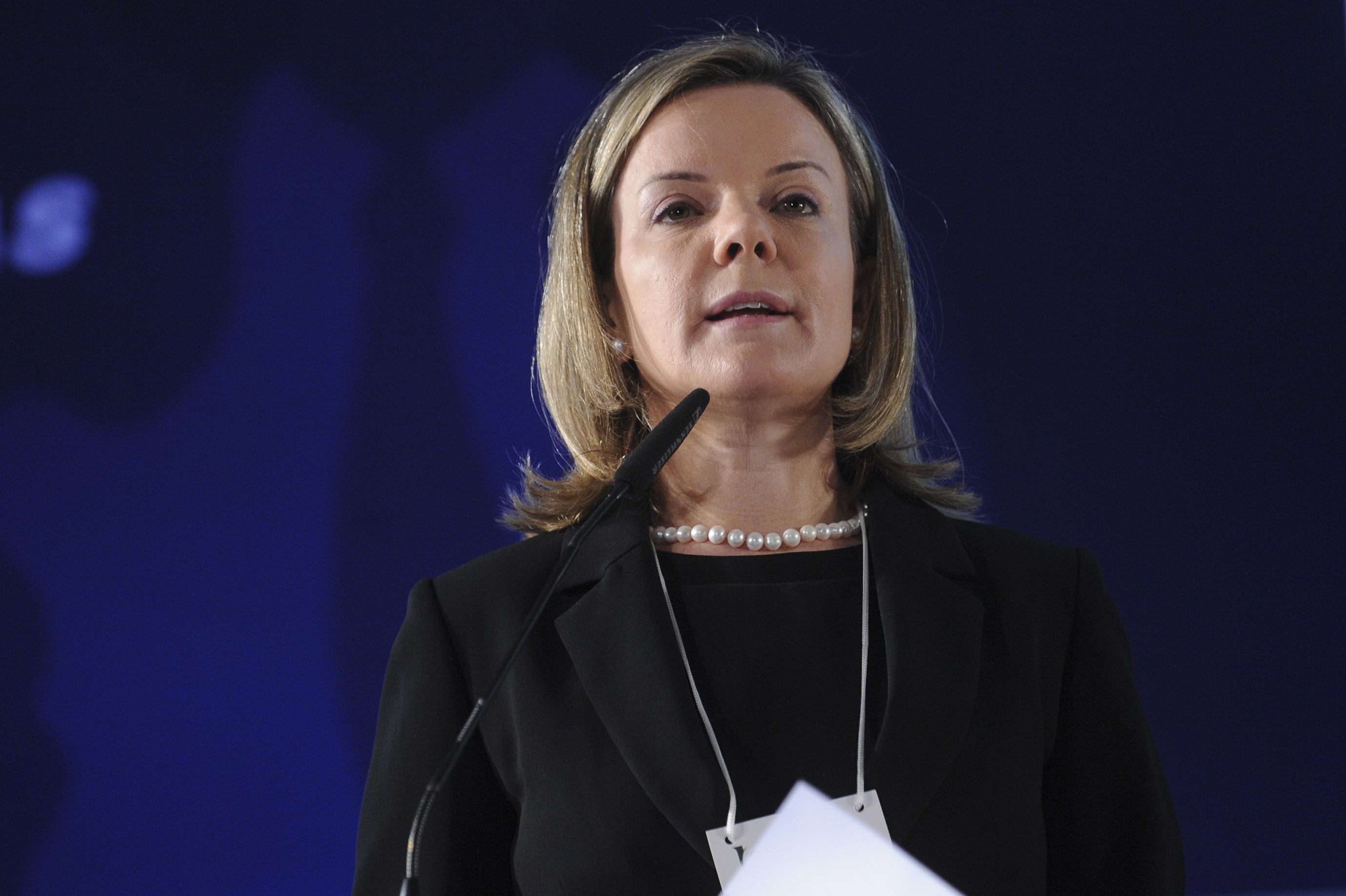 Gleisi Hoffmann, Chief of Staff of Brazil, at 10th edition of International Congress Competitive Brazil.